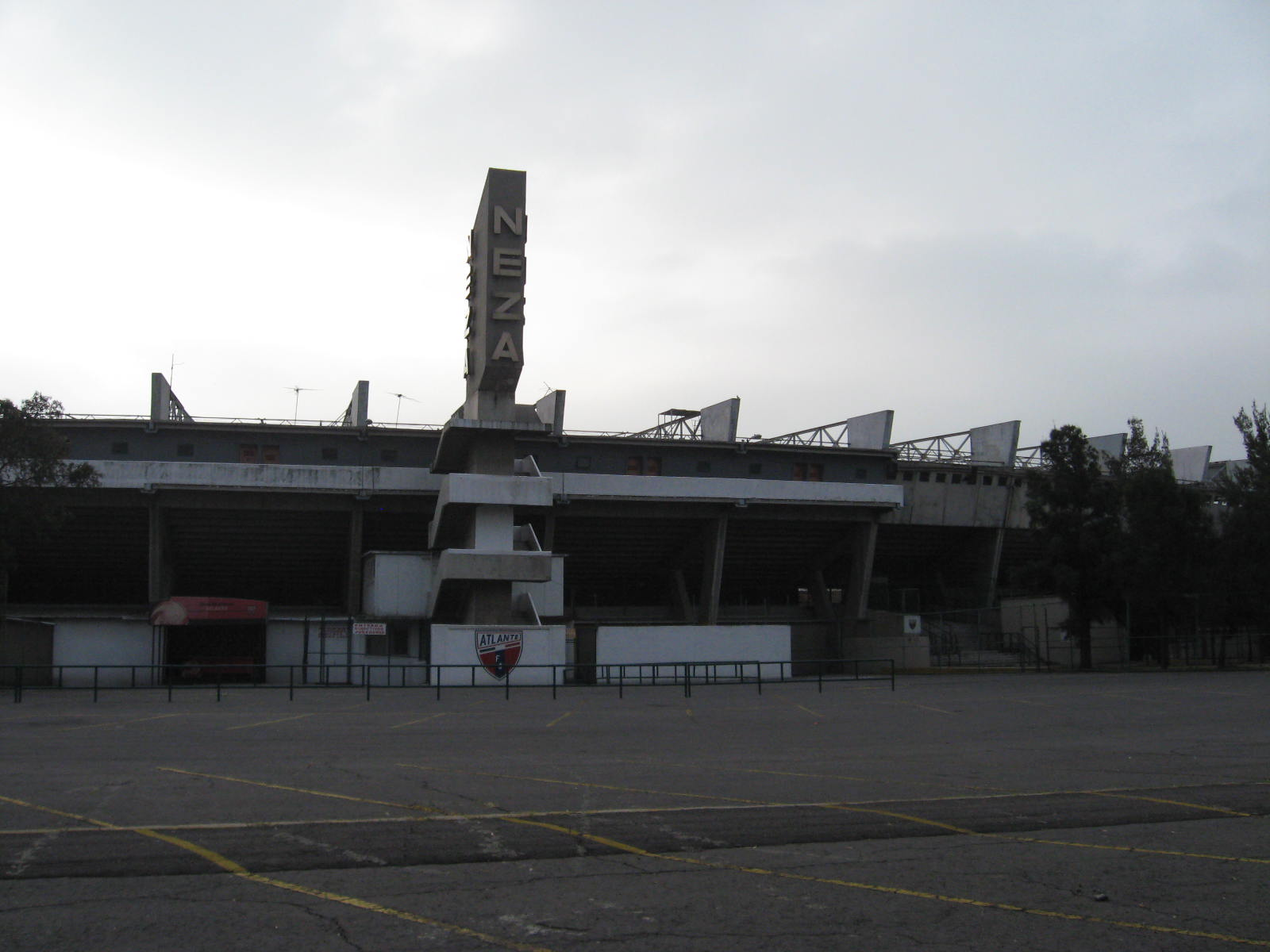 View of main entrance of Estadio (stadium) Neza 86 in Ciudad Nezahualcoyotl, Mexico